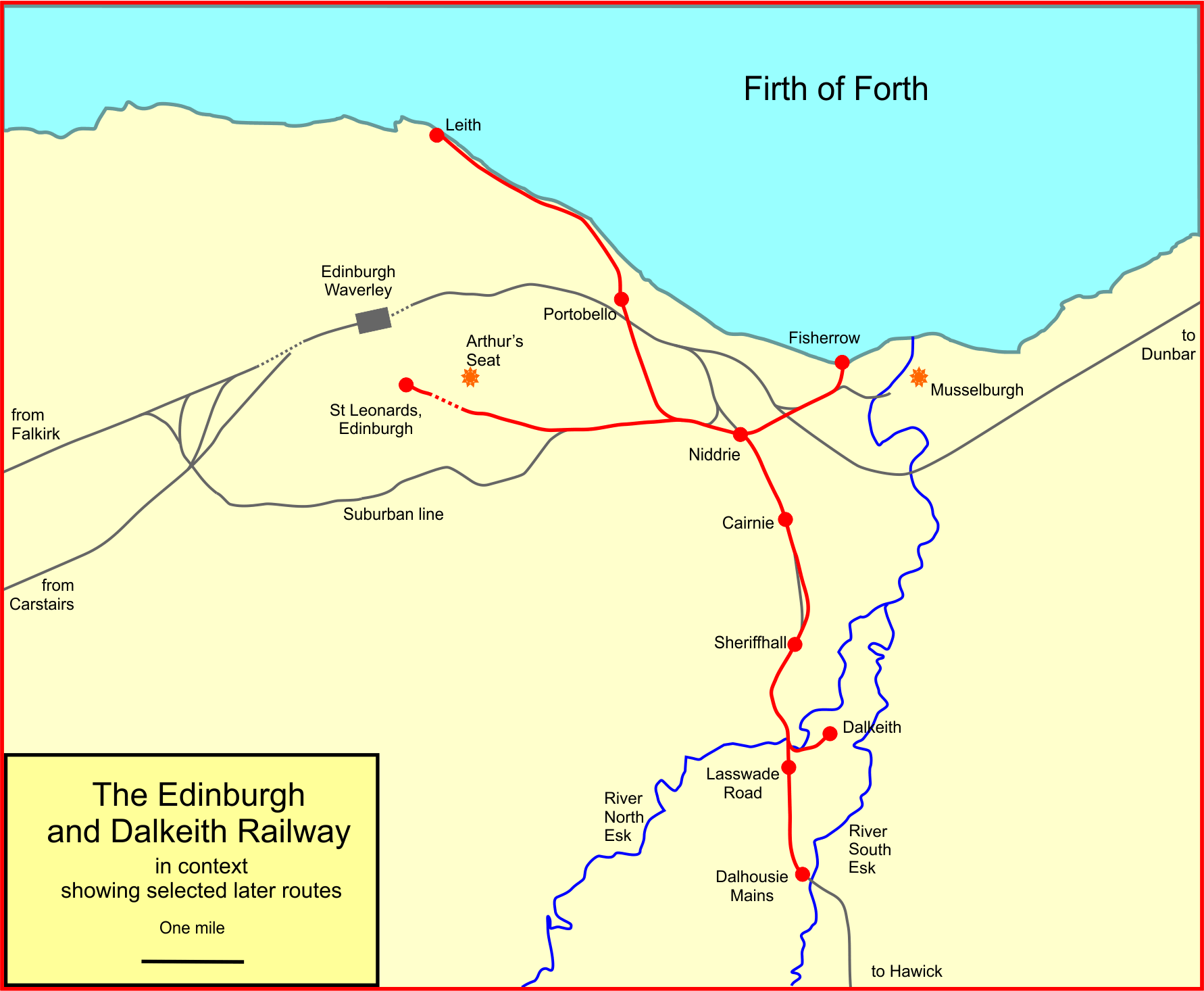 The Edinburgh and Dalkeith Railway network showing later lines for geographical context